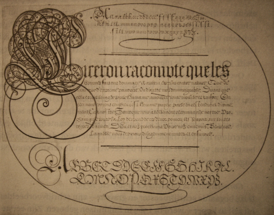 Felix van Sambix, a page from Nieuwen ABC, c. 1609